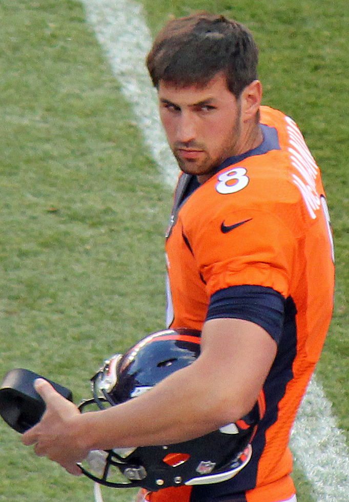 Brandon McManus, a player on the National Football League.